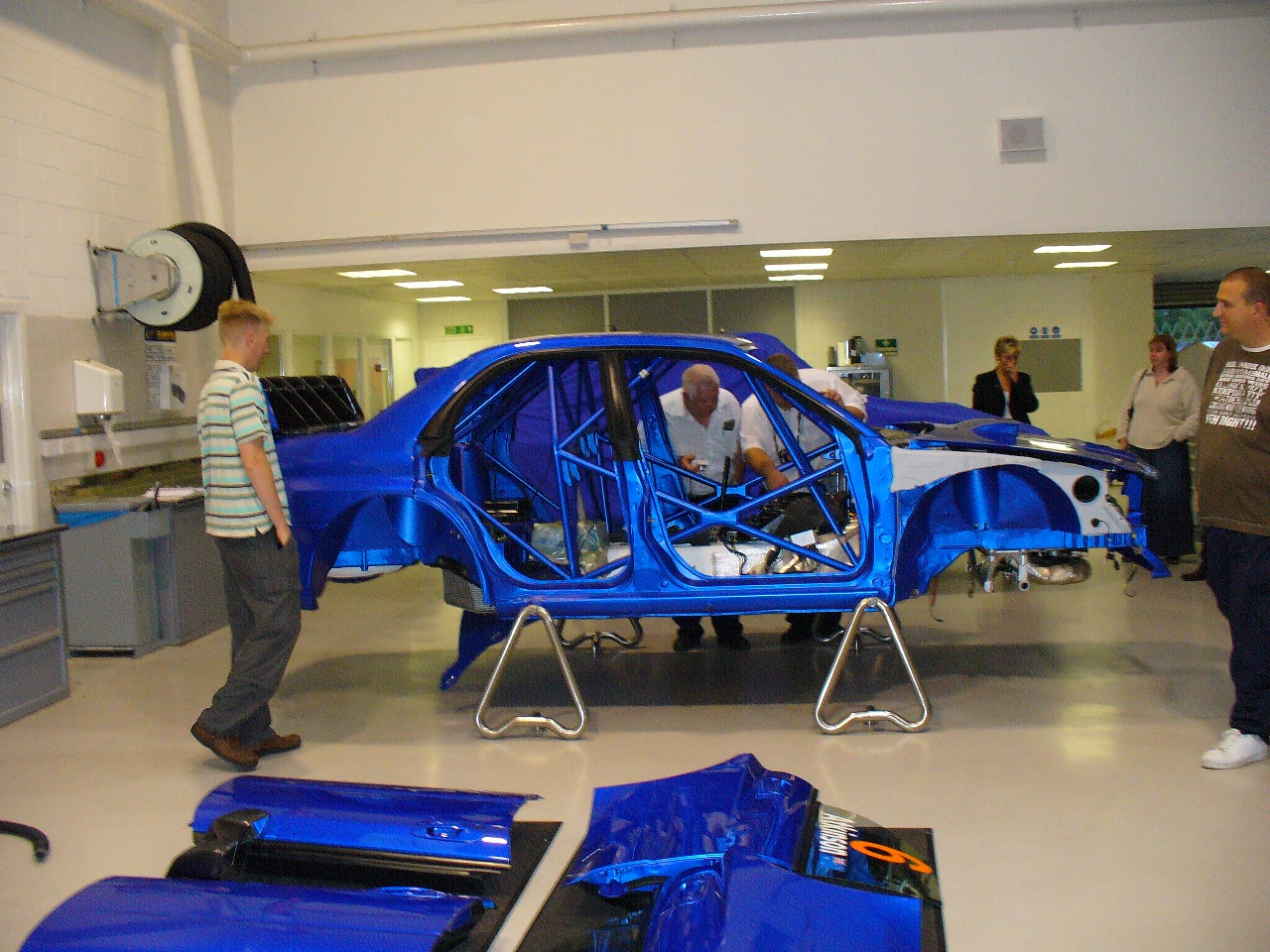 Being prepared for Rally of Cyprus